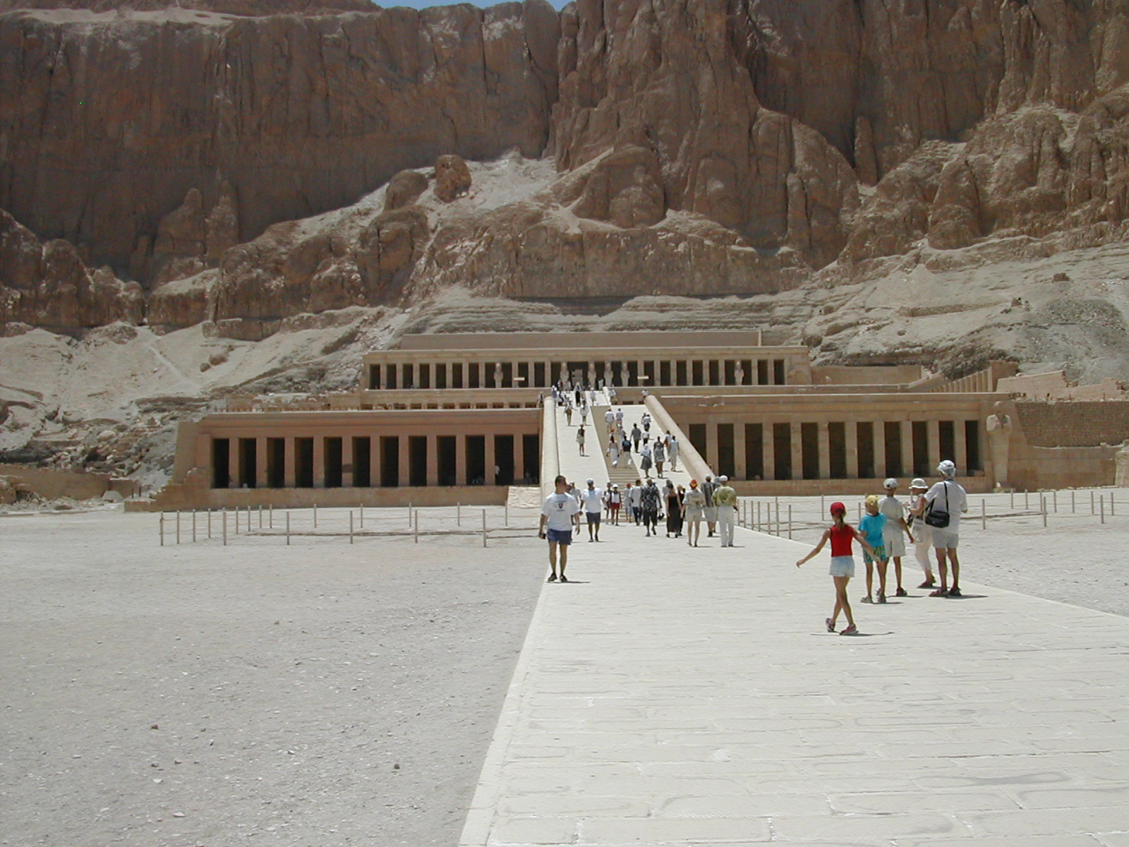 Valley of the kings - údolí králů